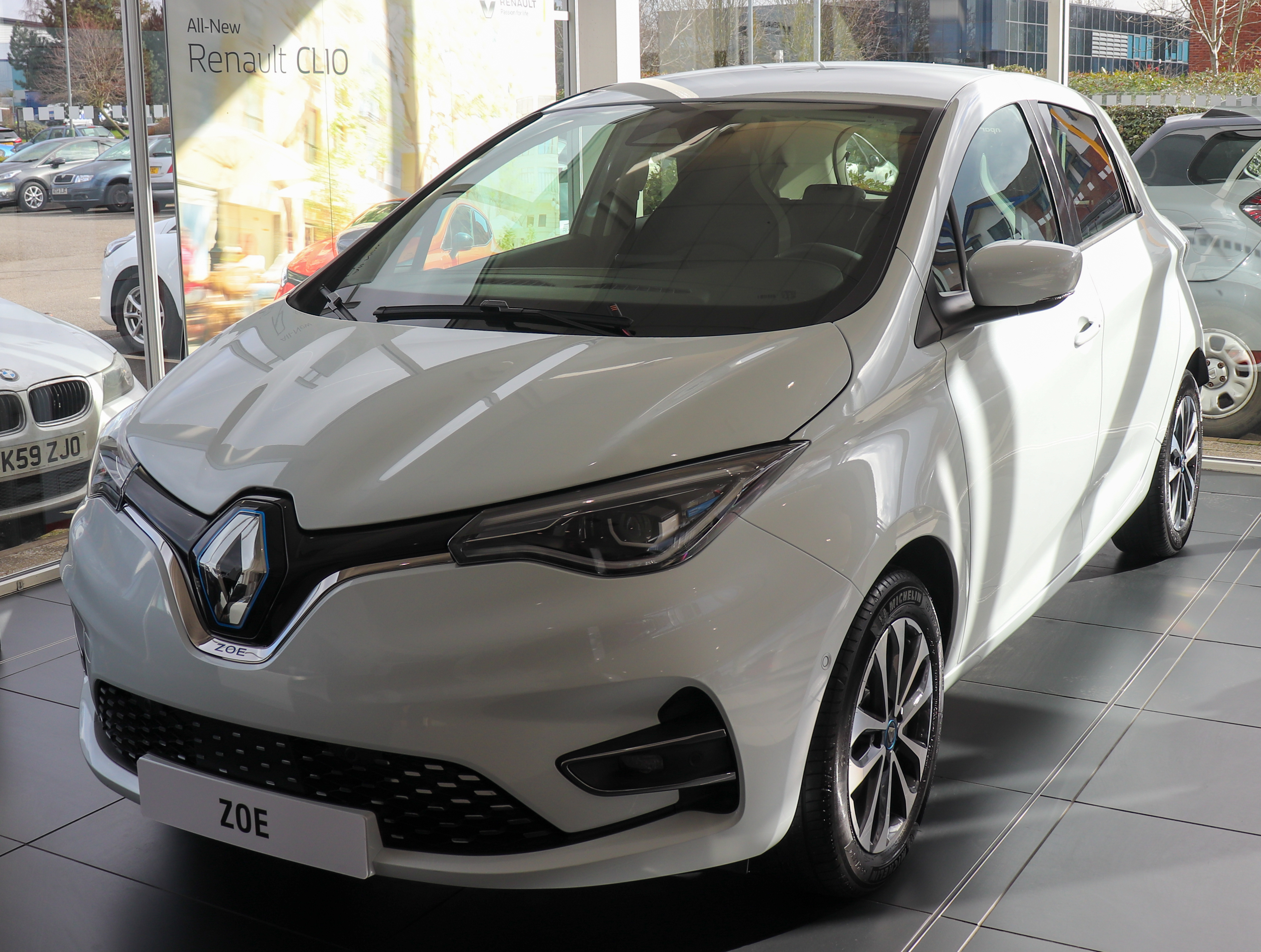 2020 Renault Zoe Intens R135 Z.E. 50 Taken in Leamington Spa